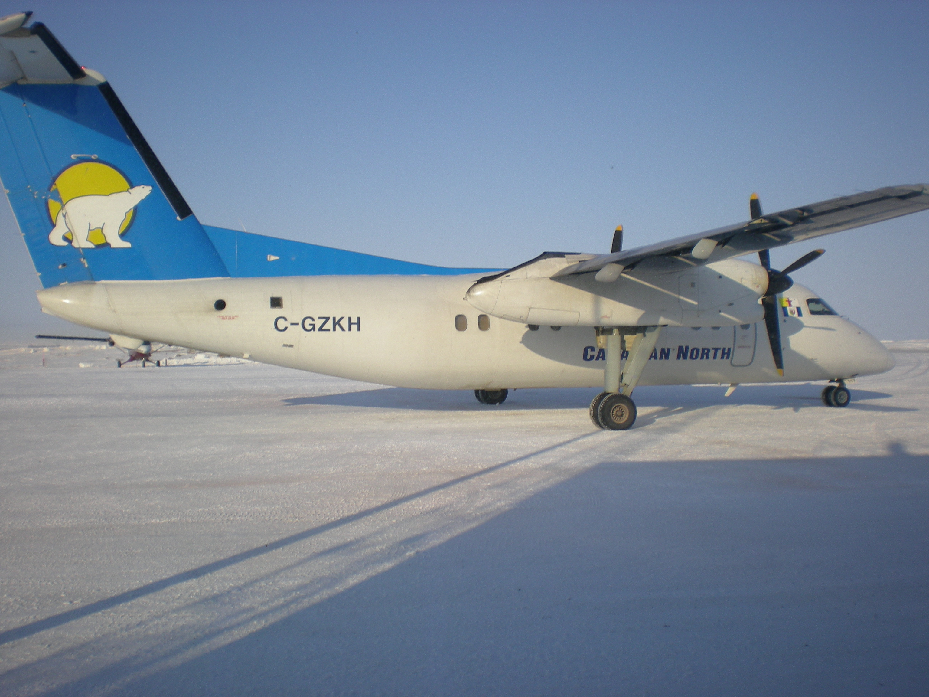 Regional 1 De Havilland Canada DHC-8 Dash 8 in Canadian North colours